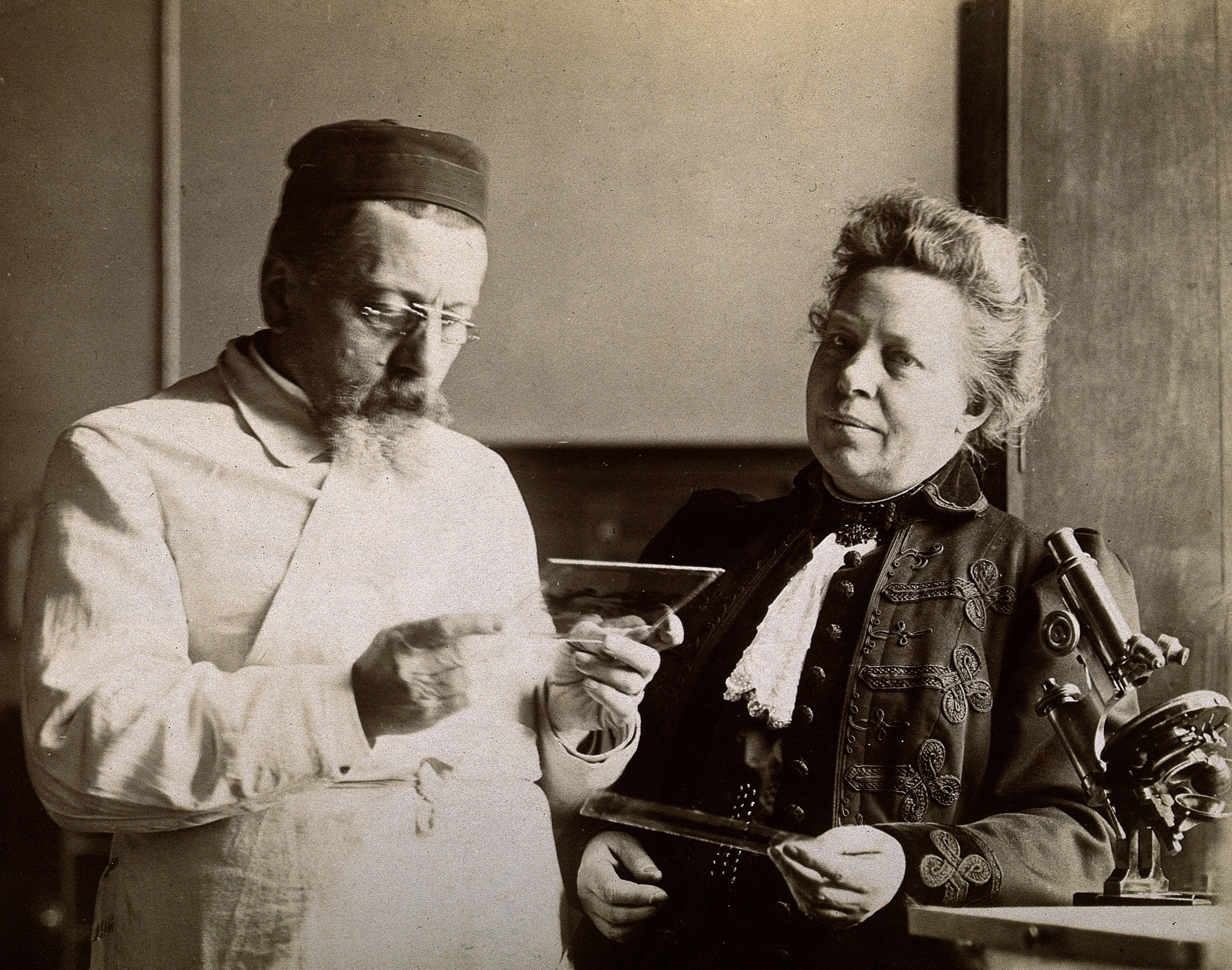 Professor and Mrs Dejerine looking at a microscopic sample